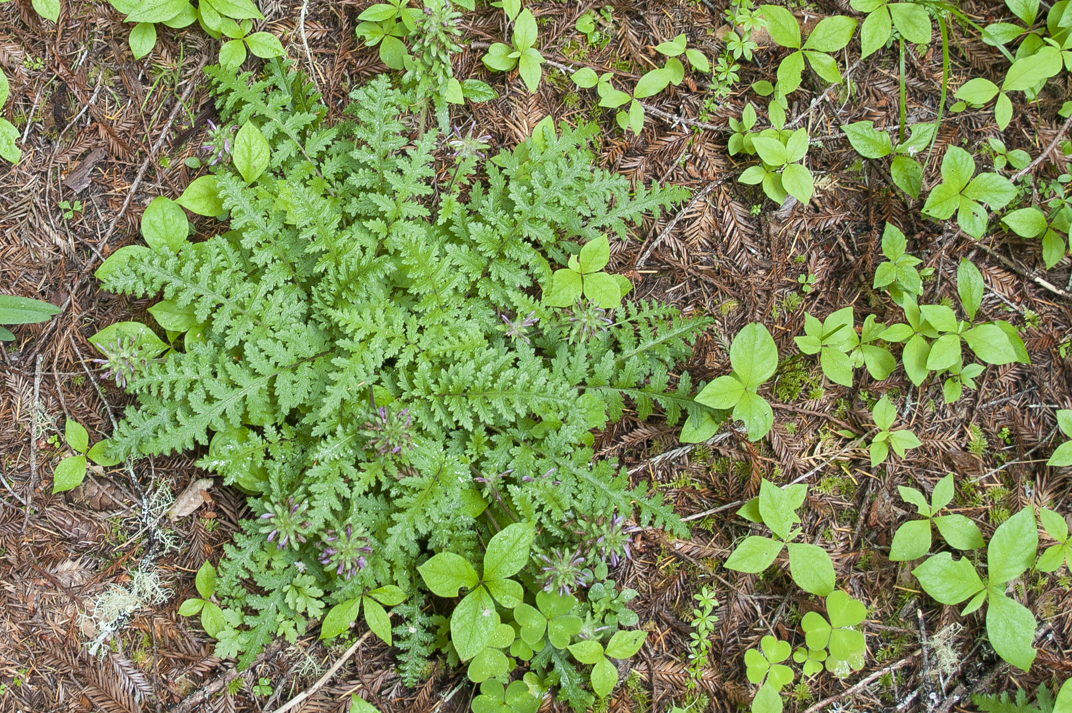 A Dudley's lousewort near Portola State Park in San Mateo, California.